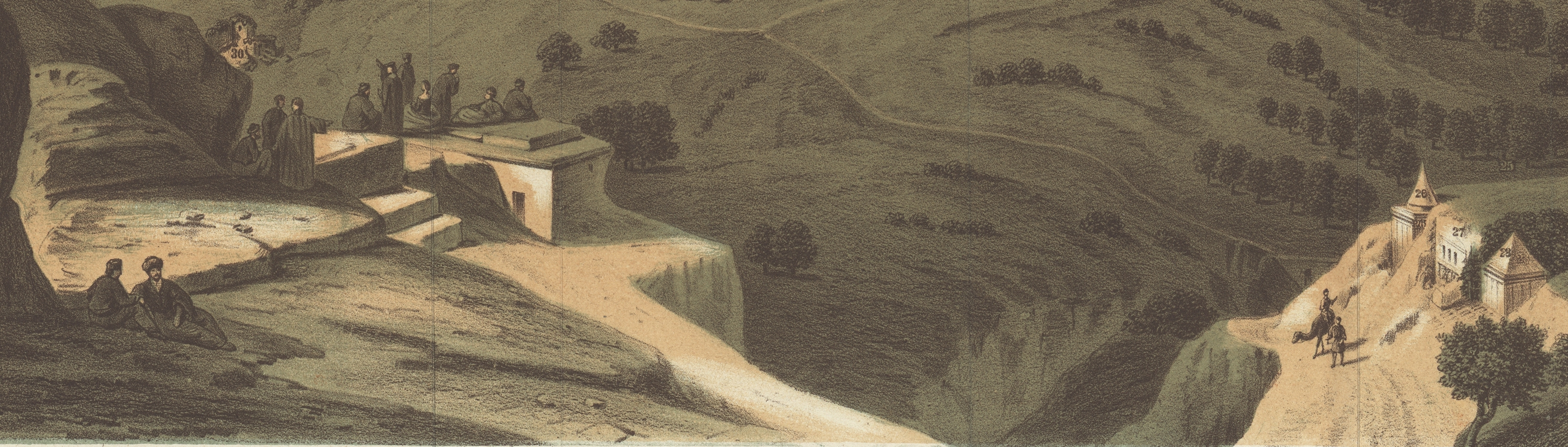 The Kidron Monuments, 1868